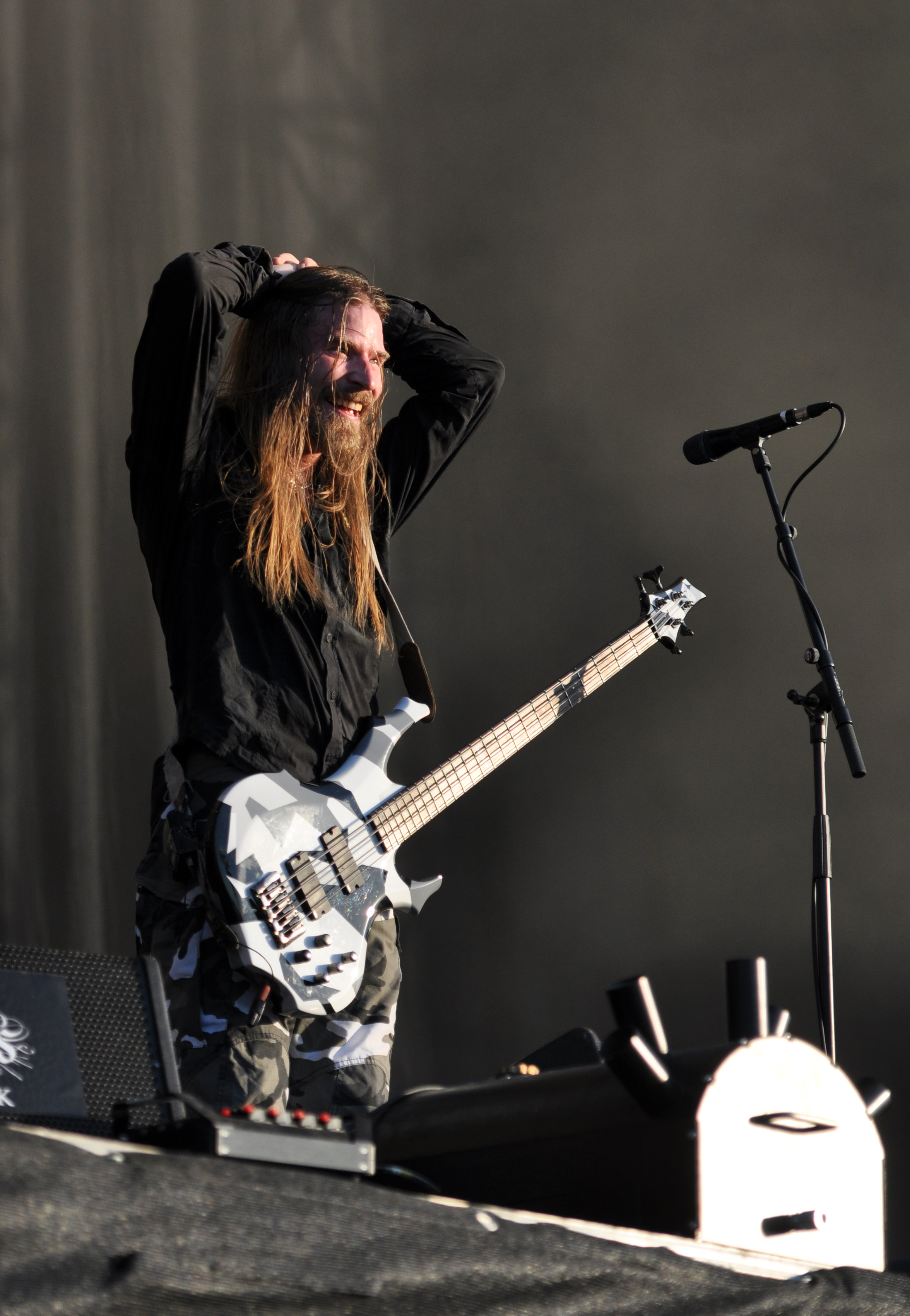 Sabaton at Wacken Open Air 2013